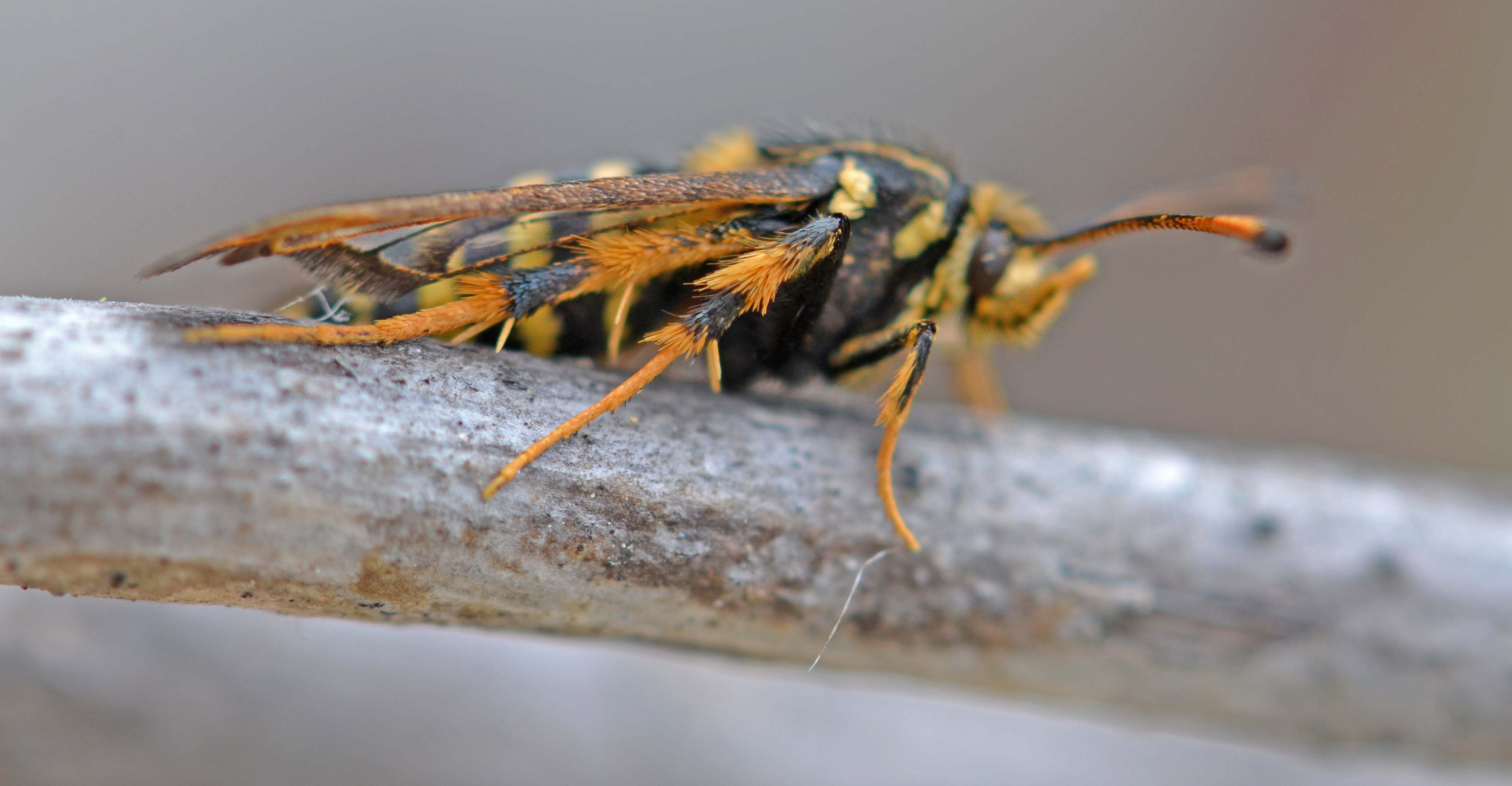 Bembecia ichneumoniformis ([Denis & Schiffermüller], 1775), (or closely related species?). photographed at the top of beach and near the cliff in Morgat (Finistère, Britain, west of France).